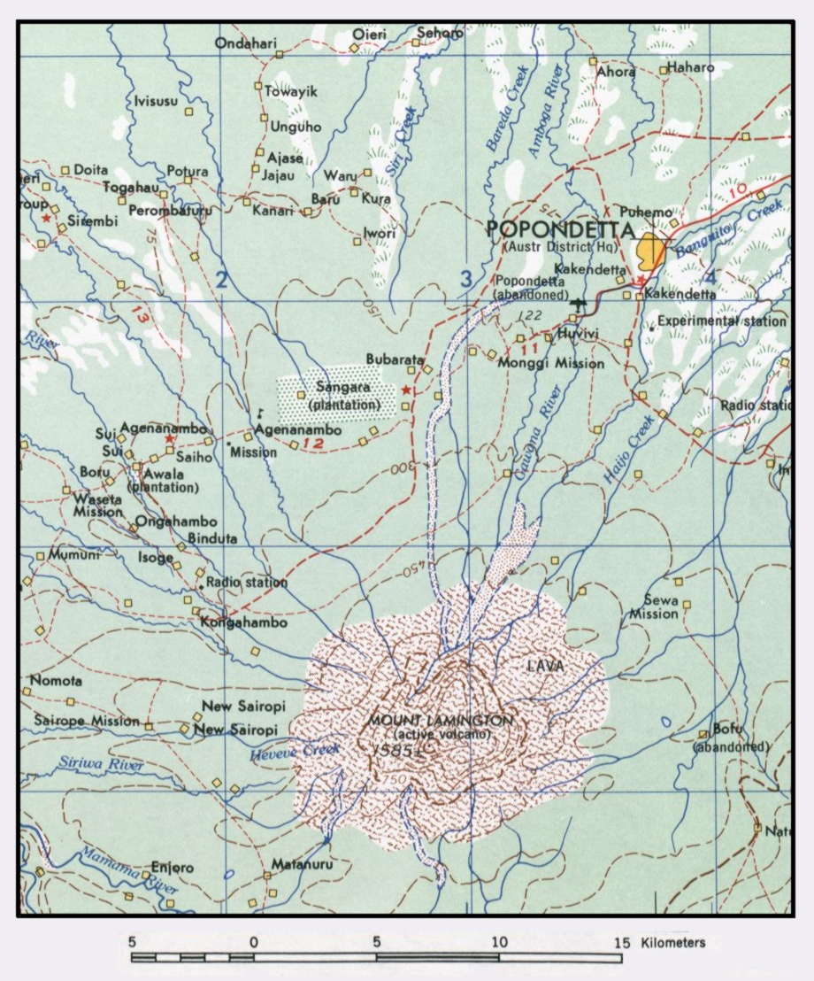 1:250,000 map of Mount Lamington and Popondetta, Oro Province, Papua New Guinea